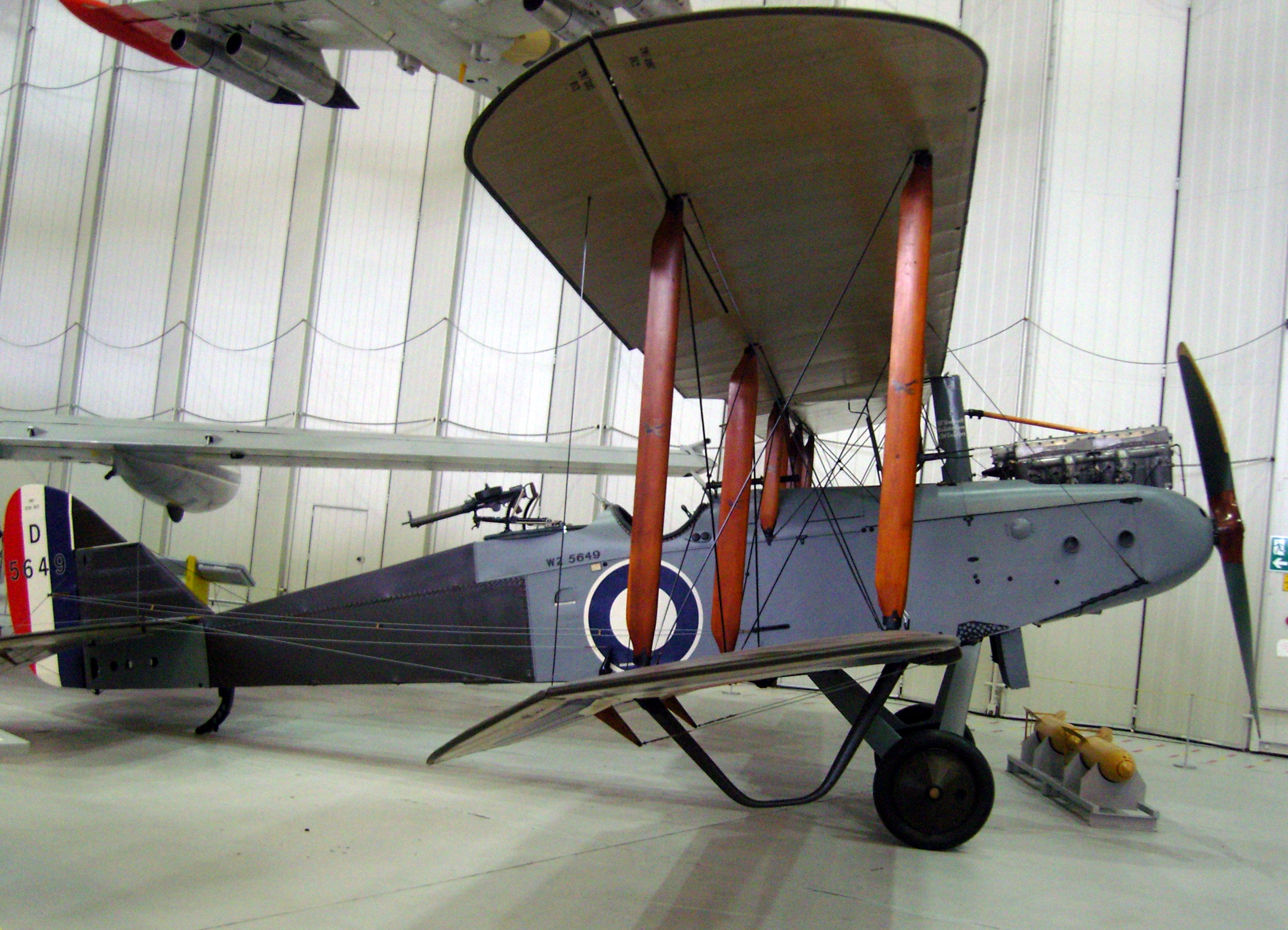 Photographed at the Military Vehicle Show, Duxford, 6th June 2010. Photo ref; SNC 13549